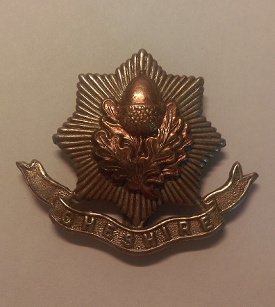 Photo of Cheshire Regiment Cap Badge from personal collection